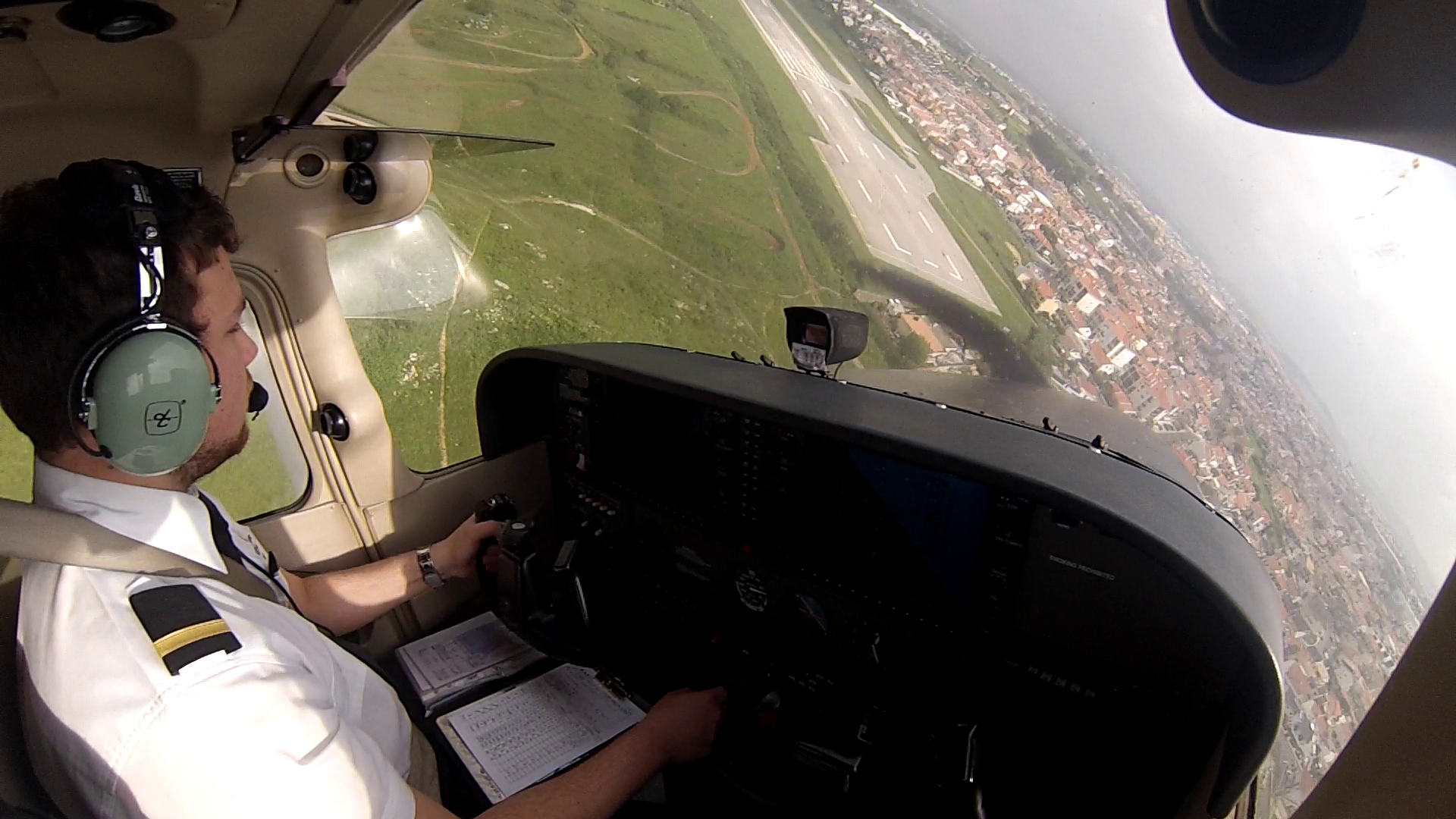 Short approach in Cascais Aerodrome's runway 35